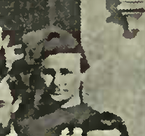 Thomas Chalmers from a picture of the first Scotland Rugby side in 1871.